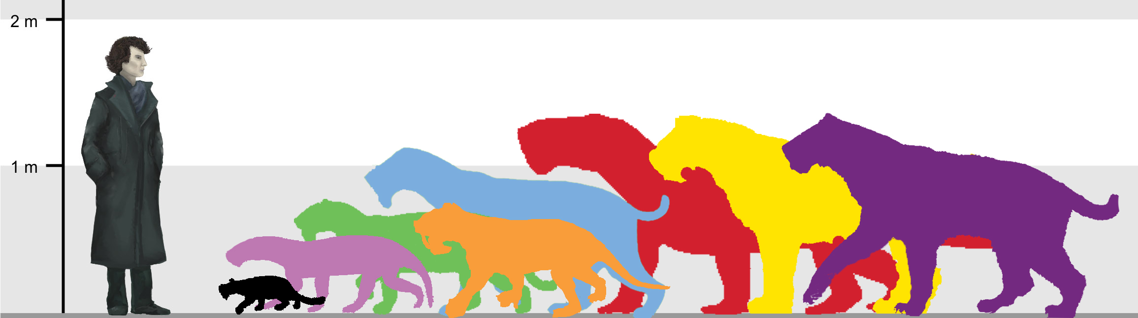 List by color (shoulder height in brackets) Black: Machaeroides eothen (25 cm) from the Machaeroidinae. Pink: Lycaenops ornatus (40 cm) from the Gorgonopsia. Green: Hoplophoneus occidentalis (60 cm) from the Nimravidae. Orange: Thylacosmilus atrox (60 cm) from the Thylacosmilidae. Light blue: Barbourofelis fricki (90 cm) from the Barbourofelidae. Red: Inostrancevia alexandri (110 cm) from the Gorgonopsia. Yellow: Smilodon fatalis (110 cm) from the Machairodontinae (different from Machaeroidinae). Purple: Homotherium serum (110 cm) from the Machairodontinae (different from Machaeroidinae).